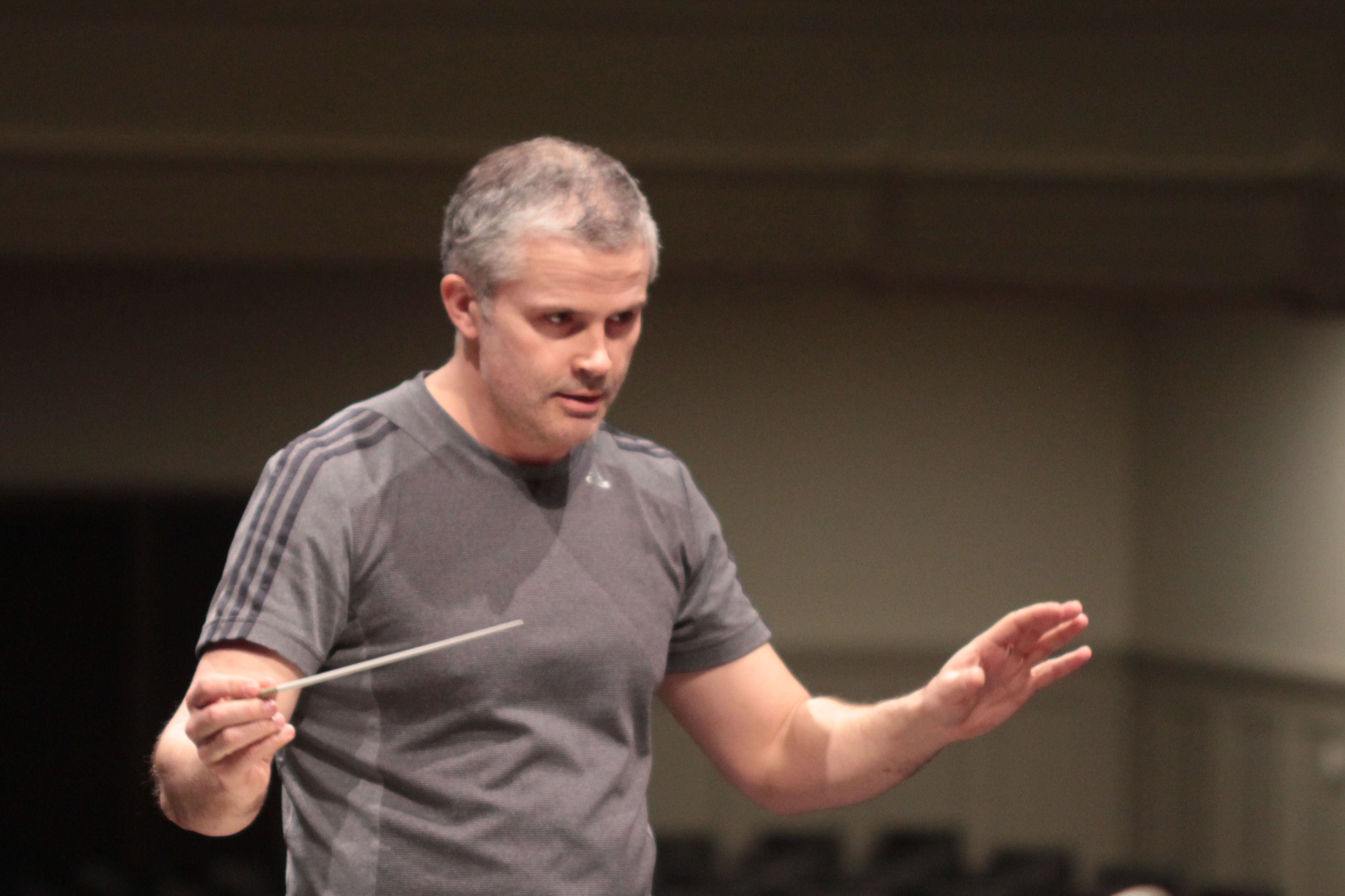 Tecwyn Evans conducting the Dunedin Symphony Orchestra in a rehearsal in the Dunedin Town Hall, April 2016.